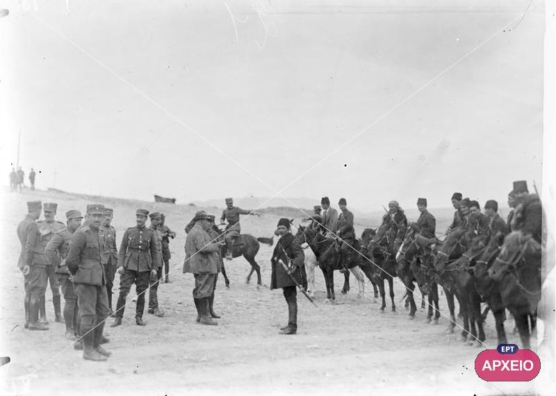 Circasian cavalrymen with officers of XI Greek division during Asia Minor campaign of Greek armyTürkçe: Yunan ordusunun Anadolu seferi sırasında Yunan subaylar ile Çerkez süvariler